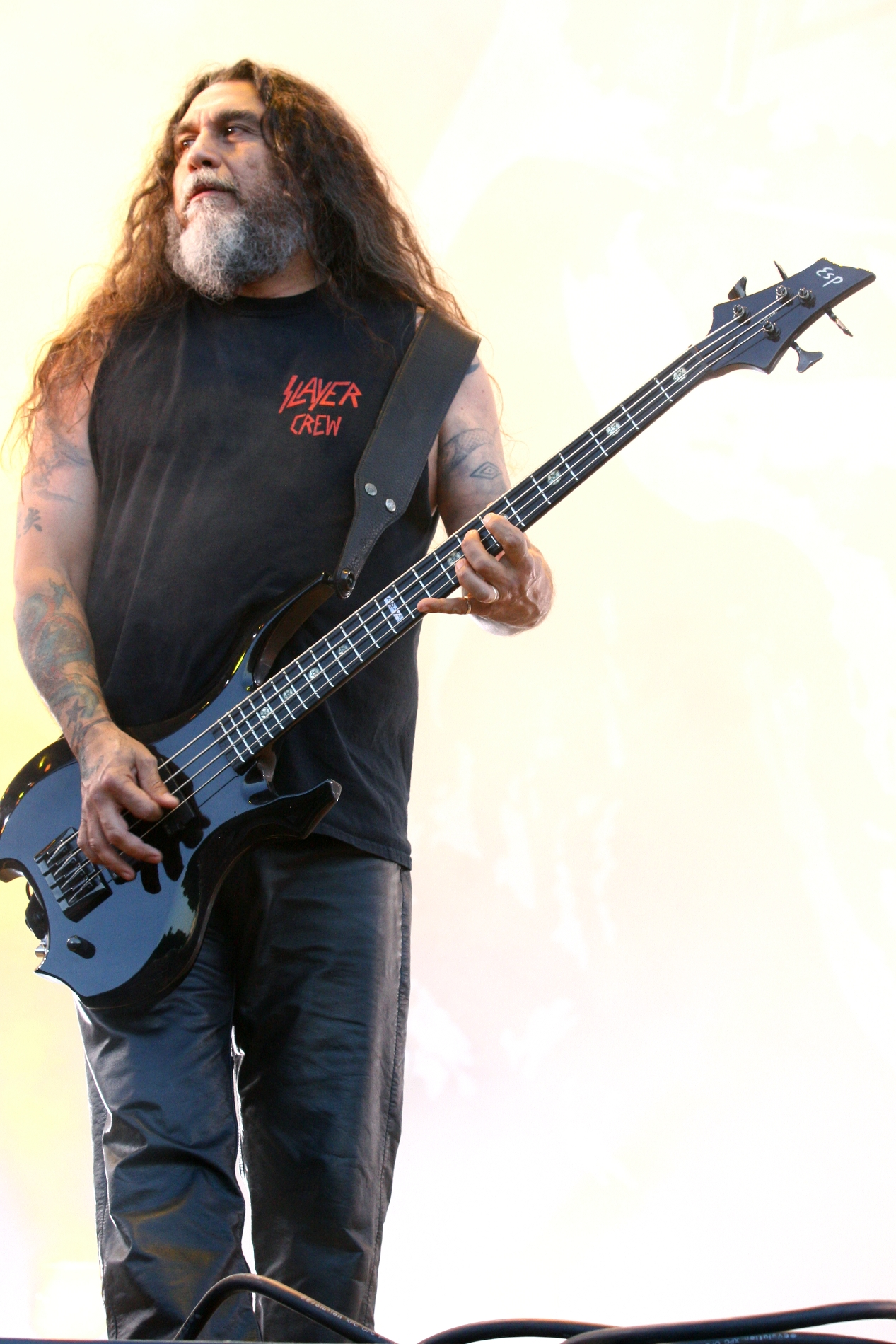 Tom Araya, singer of Slayer, Rock im Park Festival 2014. Festivalsommer This photo was created with the support of donations to Wikimedia Deutschland in the context of the CPB project "Festival Summer".